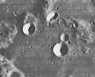 Craters Brewster and Franck